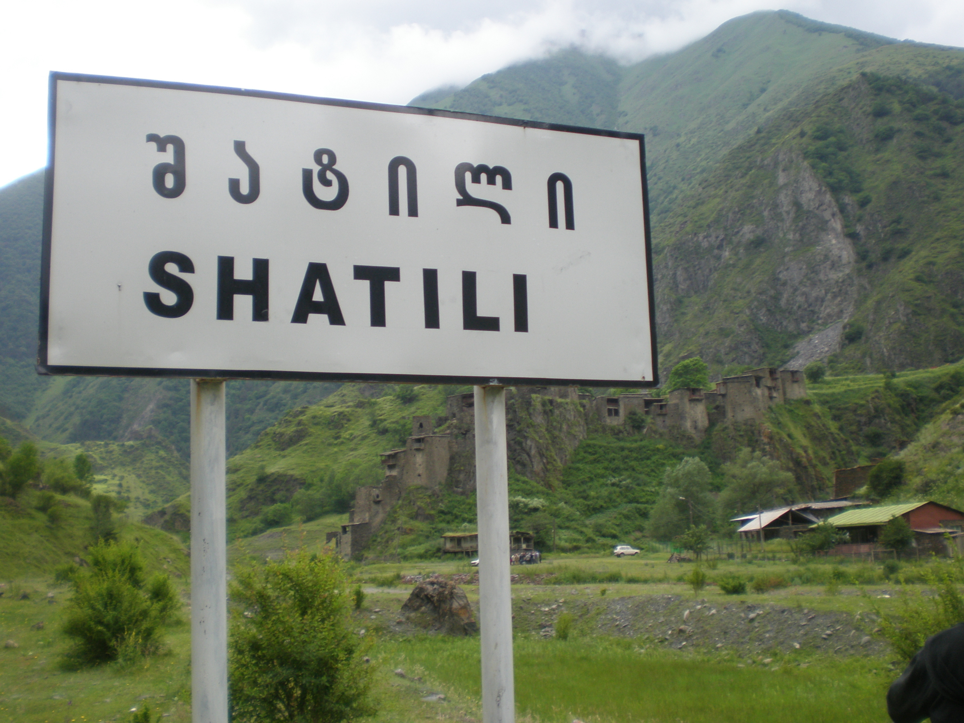 The Shatili village on Georgian mountains, Khevsureti region